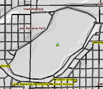 Snip of Lake Nokomis in Minneapolis, MN, USA.